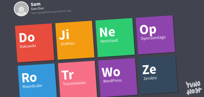 YunoHost User Portal